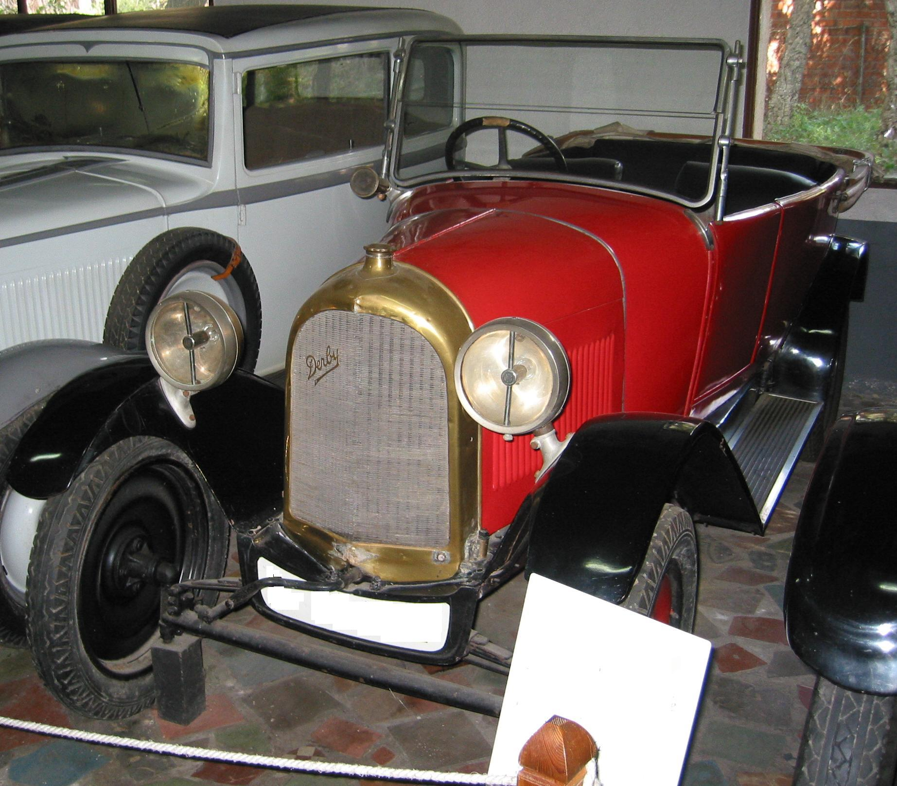 Derby 1922 (Country of origin: France)